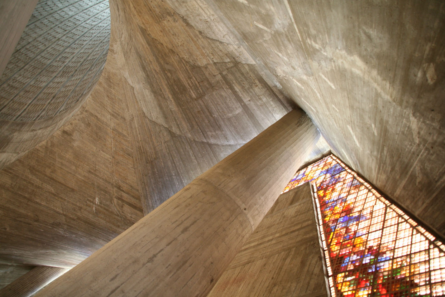 Sacred Heart Cathedral of Alger